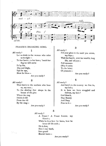 Fraser's Drinking Song, by Georgina Fraser Newhall (page 2)